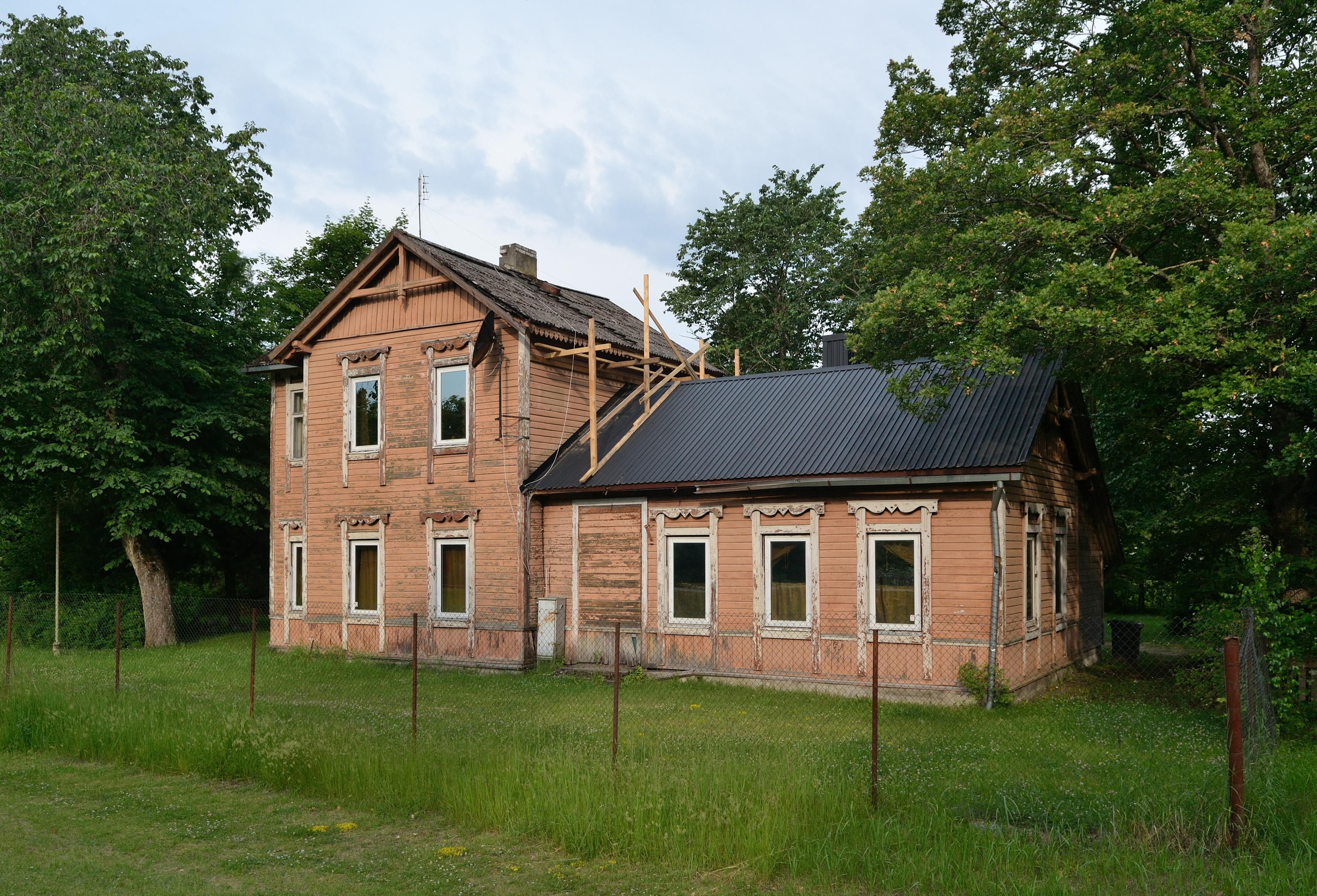 Saku station former main building, built in 1900.